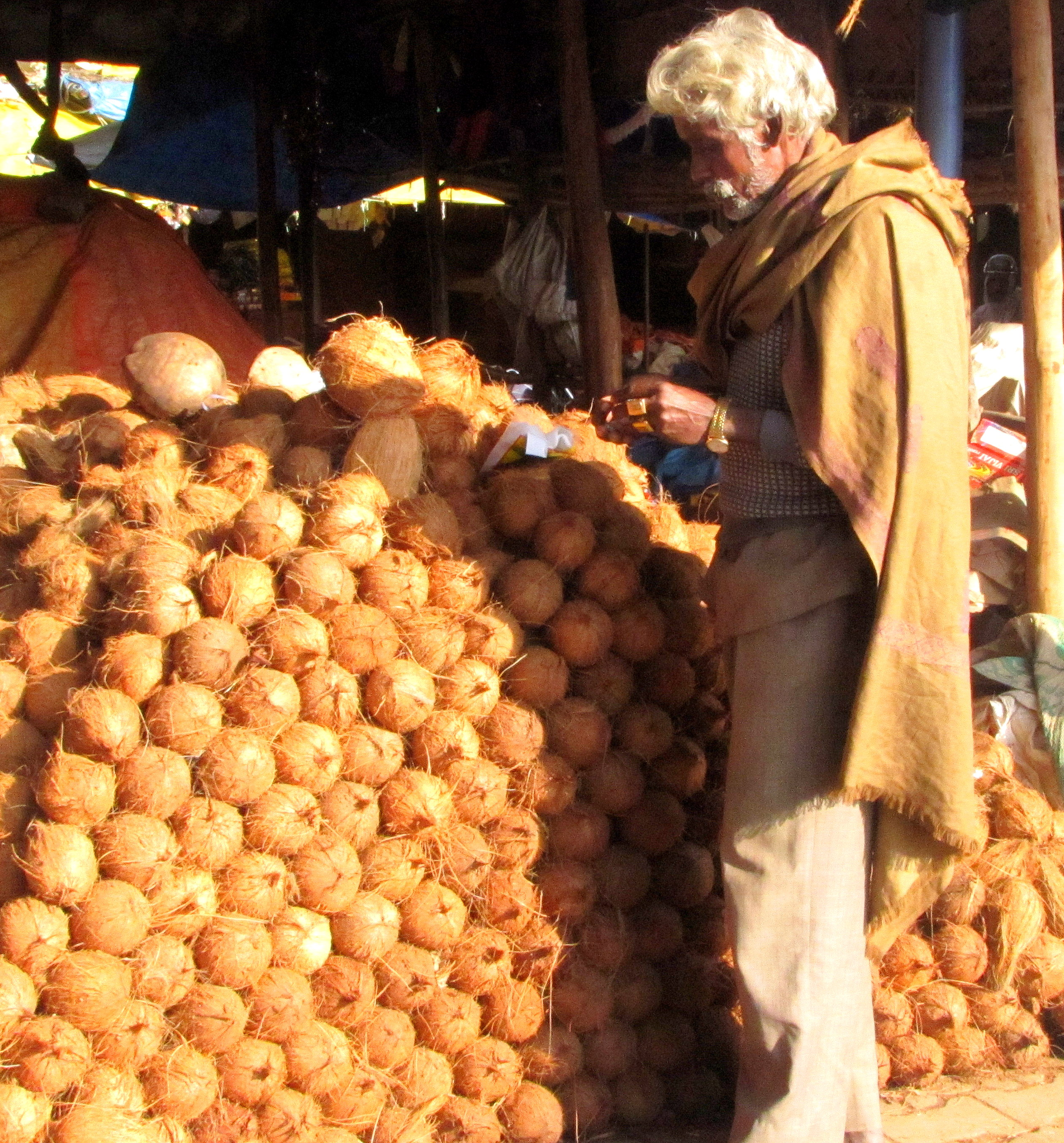 Madiwala Coconut market